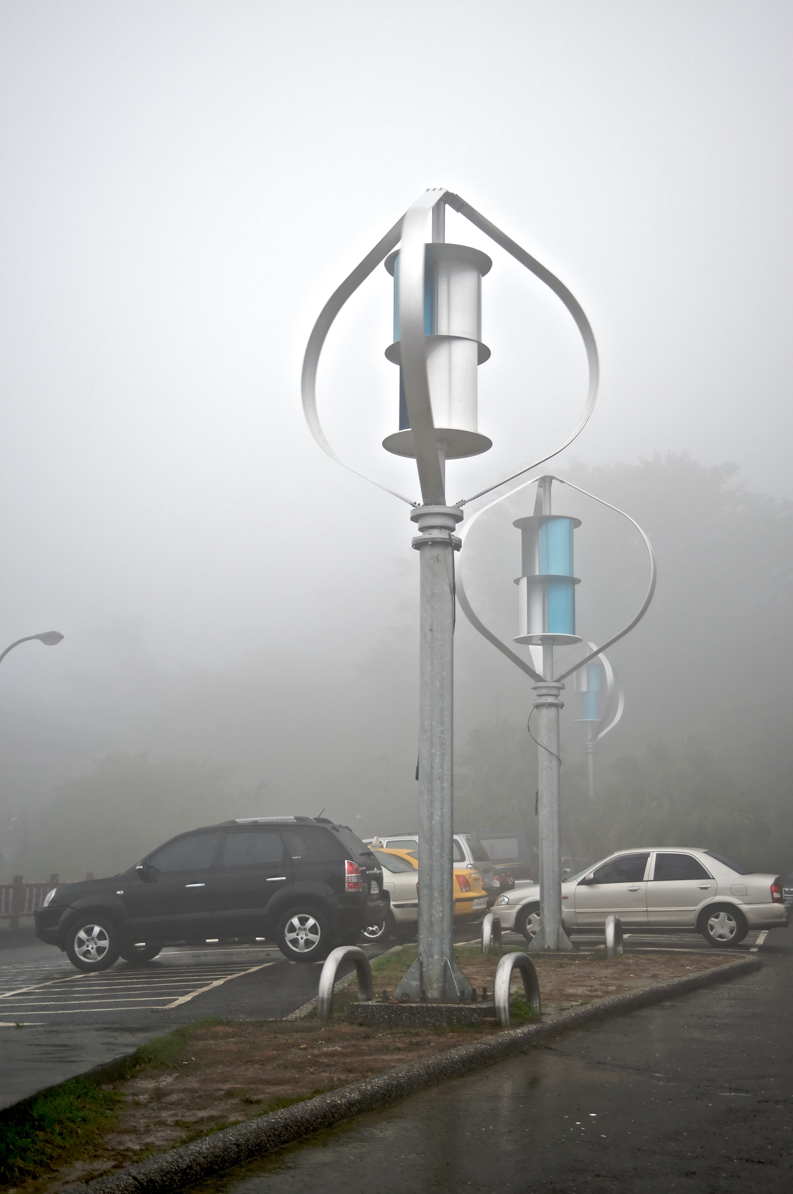 Wind turbines at Jinguashi